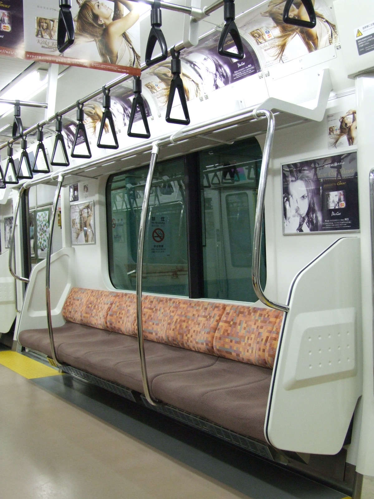 Seats of JR East E233